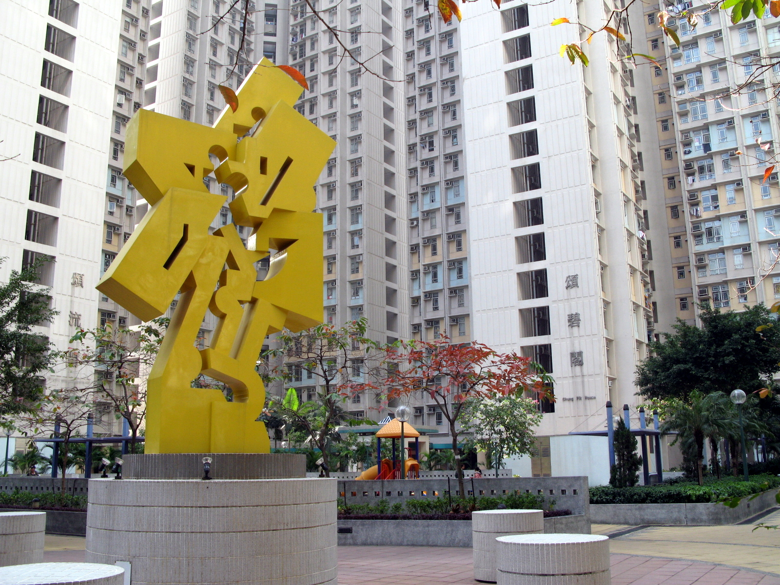 HK Tin Chung Court Statue